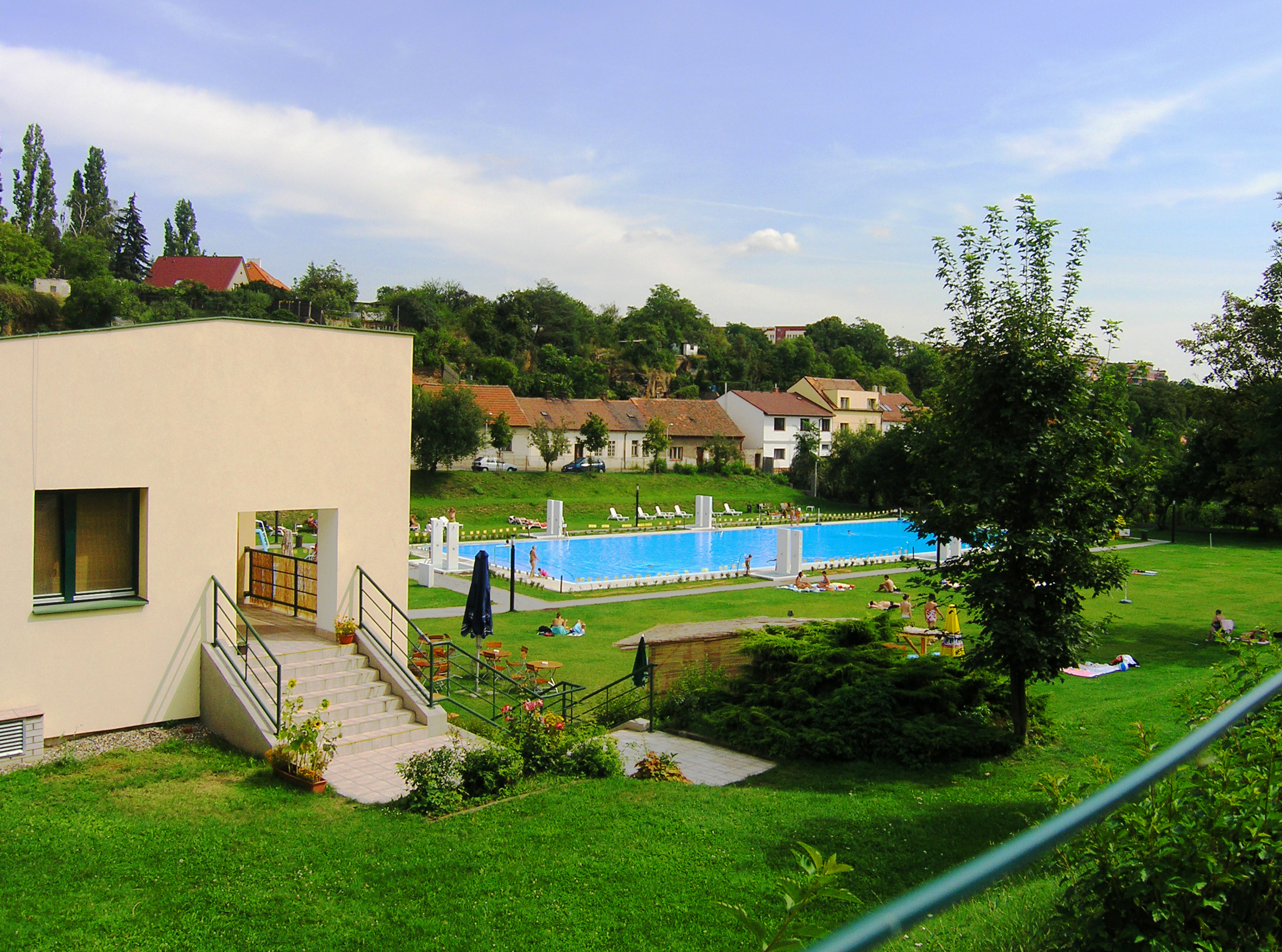 Na Stírce lido in Kobylisy, Prague